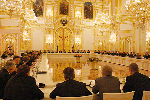 GRAND KREMLIN PALACE, MOSCOW. State Council meeting on the situation around South Ossetia and Abkhazia.